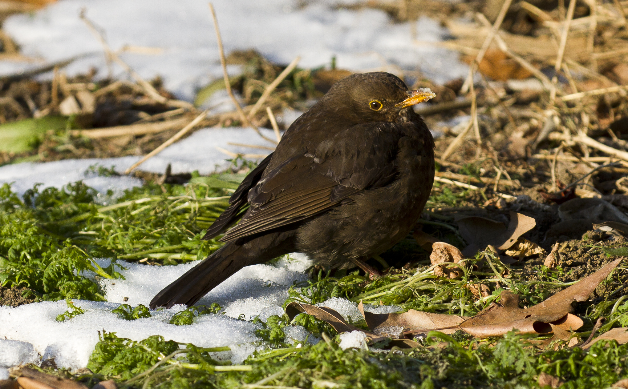 Turdus merula in the snow